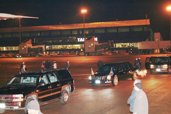 President George W. Bush's motorcade at Tallinn Airport, Estonia.